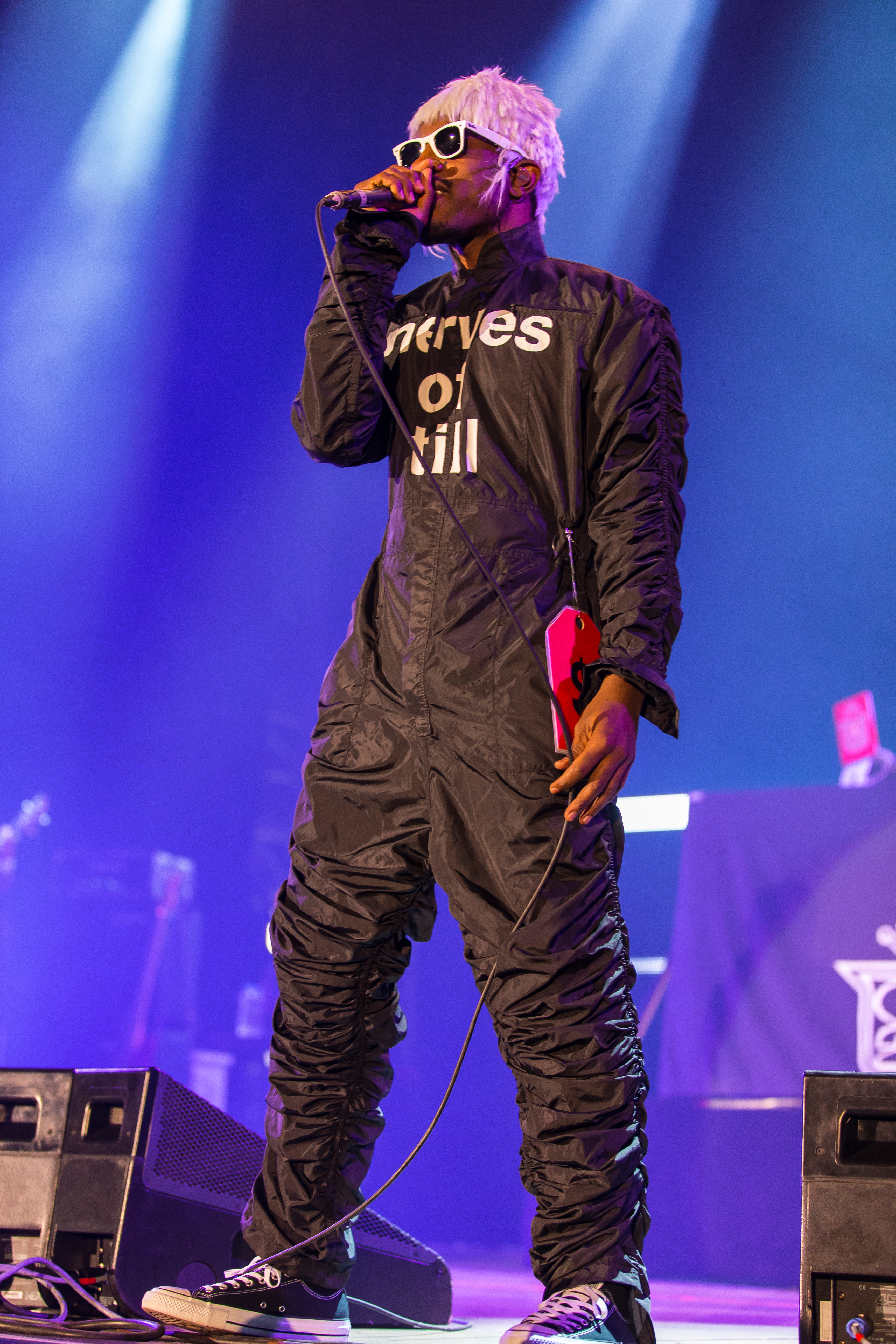 Rock'n'Heim Rock Festival Hockenheim August 2014